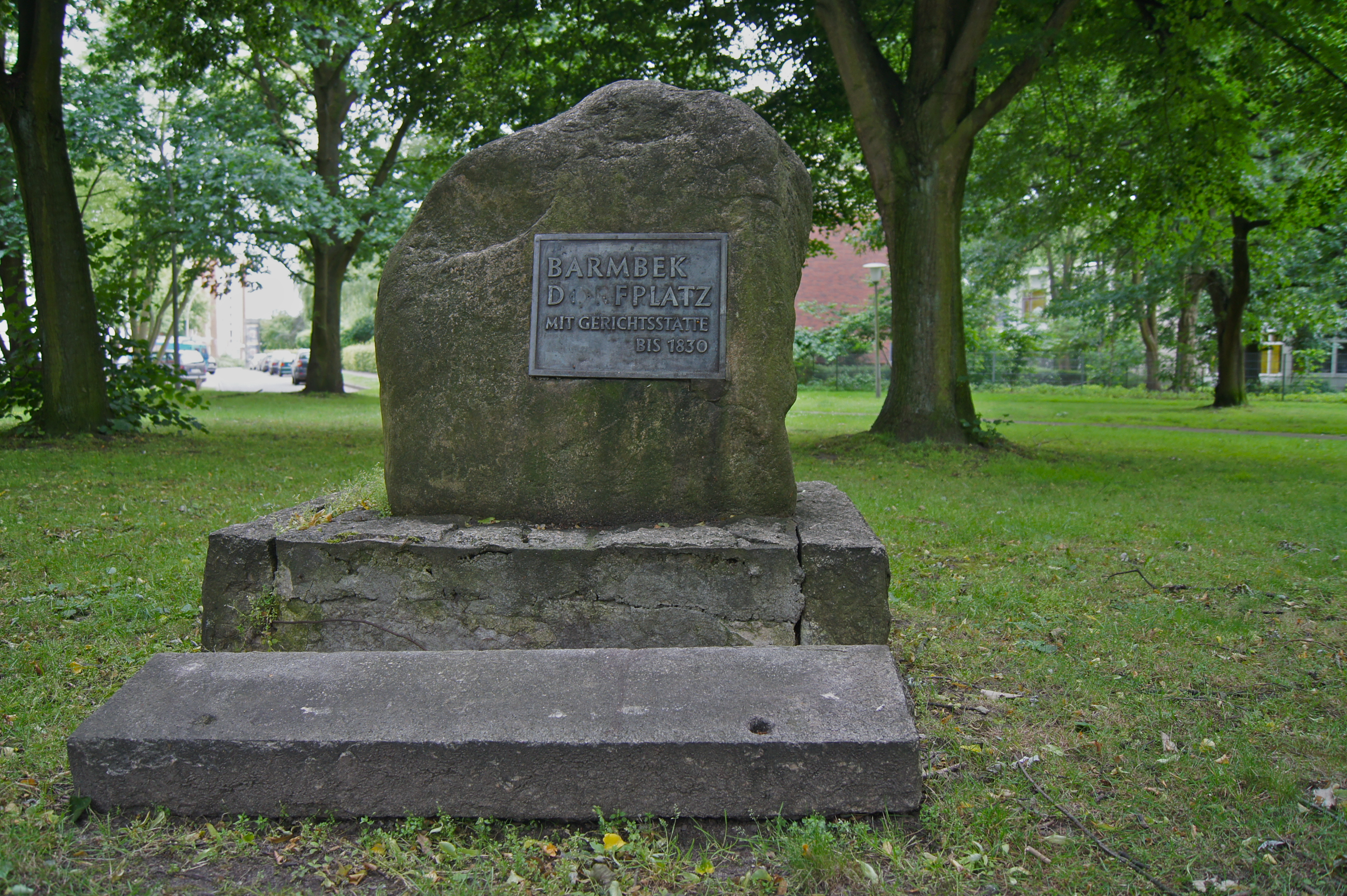 Hamburg (Barmbek-Süd), Germany: Memorial stone for the Justice Court on the centralDorfsplatz until 1830